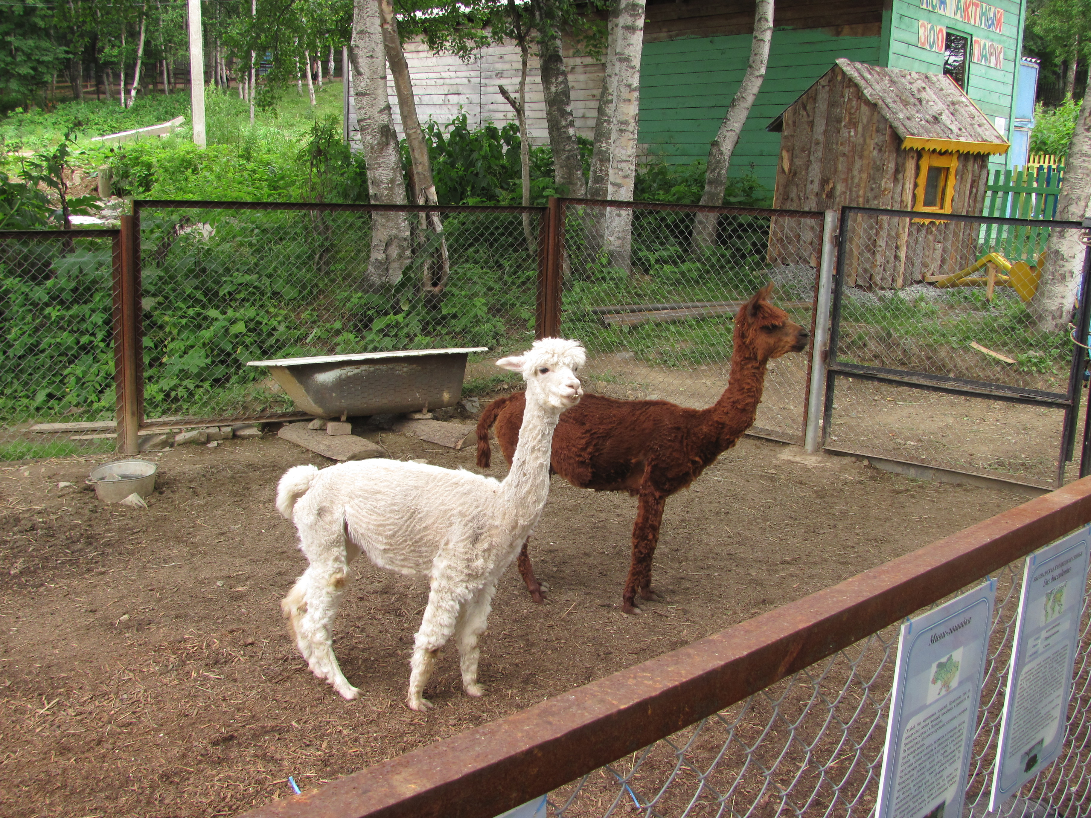 Alpaca in the Zoo of Yuzhno-Sakhalinsk